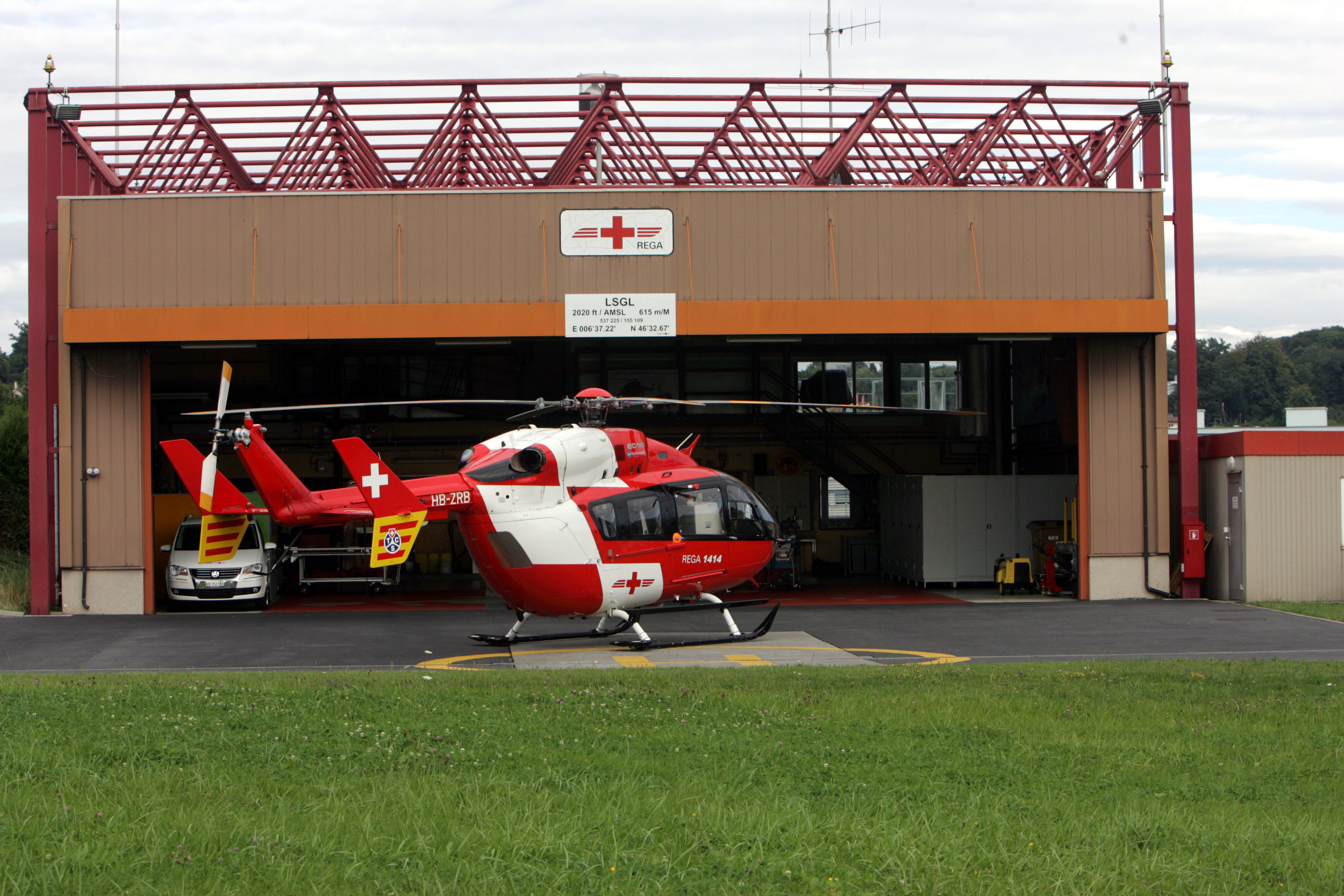 Eurocopter EC 145 of the Rega